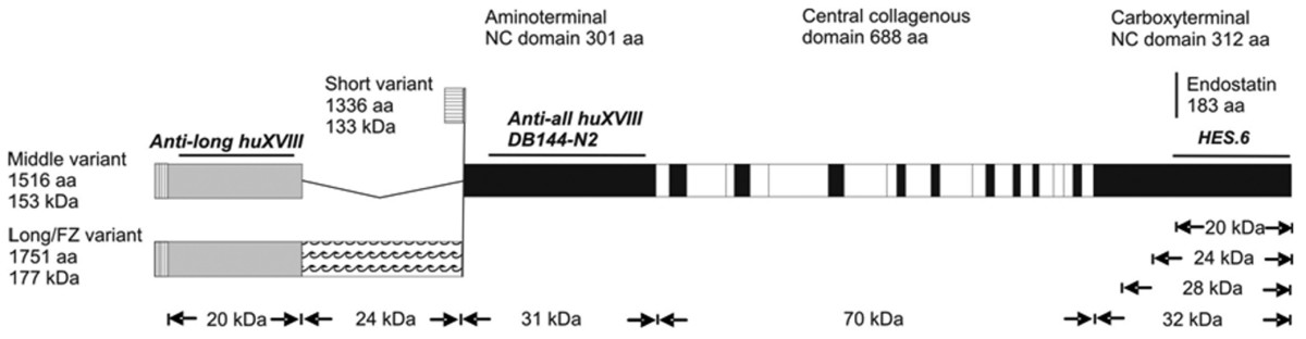 Schematic representation of the human collagen XVIII variants, termed as SHORT, MIDDLE and LONG/FZ. Collagenous sequences are shown in white. Non-collagenous (NC) amino terminal sequences common to all variants are shown in black. Non-collagenous amino terminal sequences common to the two long variants are shown in grey. A non-collagenous amino terminal sequence specific to the LONG/FZ variant is marked with waves. The amino acid lengths (aa) and the predicted molecular masses (kDa) of these sequences are given, as are those of the full length type XVIII collagen molecules. Signal sequences are indicated by vertical and horizontal hatching. The epitopes of the antibodies used in this work are shown by black horizontal lines. The molecular masses of some endostatin-containing carboxy-terminal fragments are also indicated. Perkins et al. Critical Care 2009 13:R52